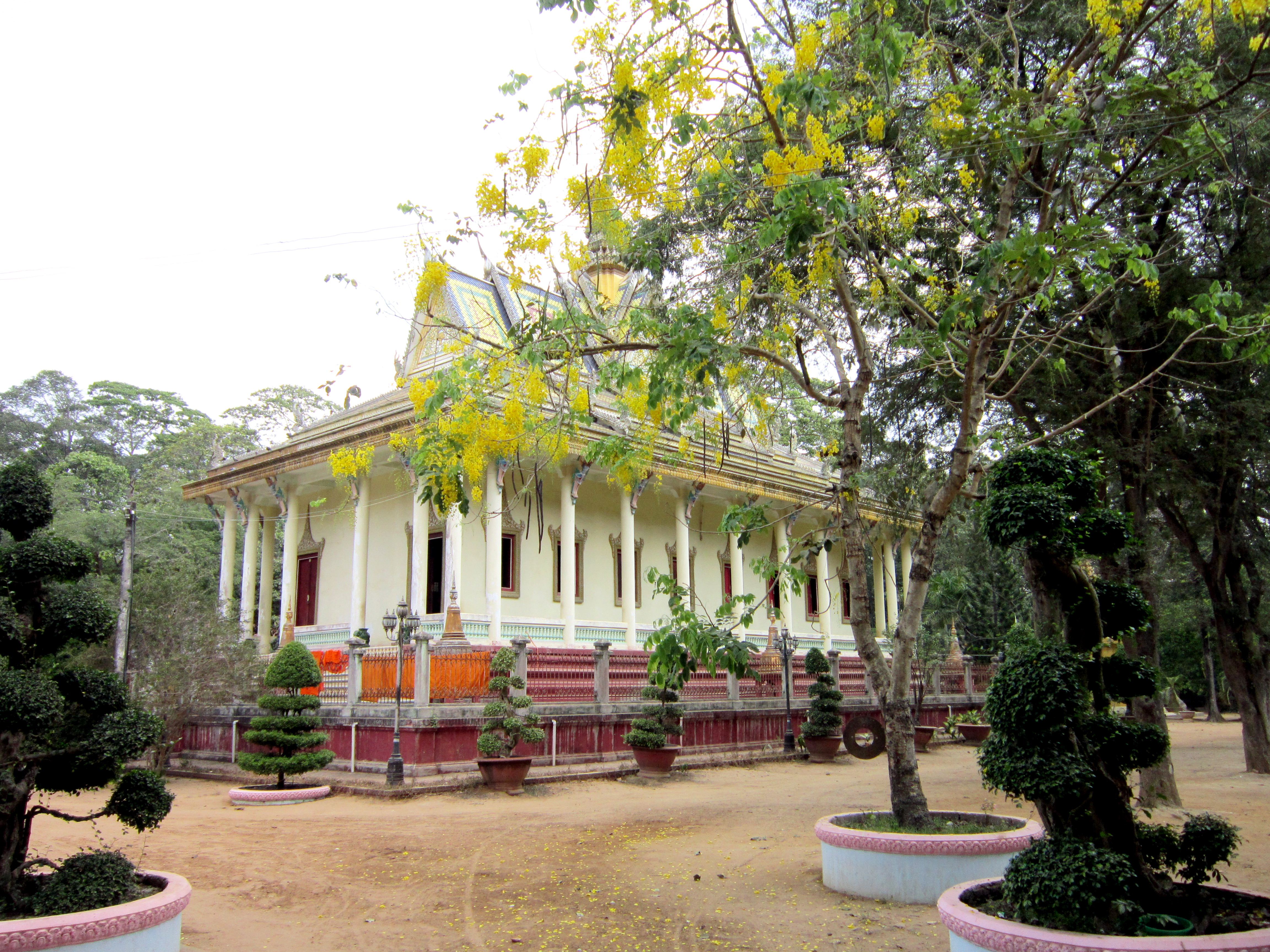 Kompông Chrây Temple main building